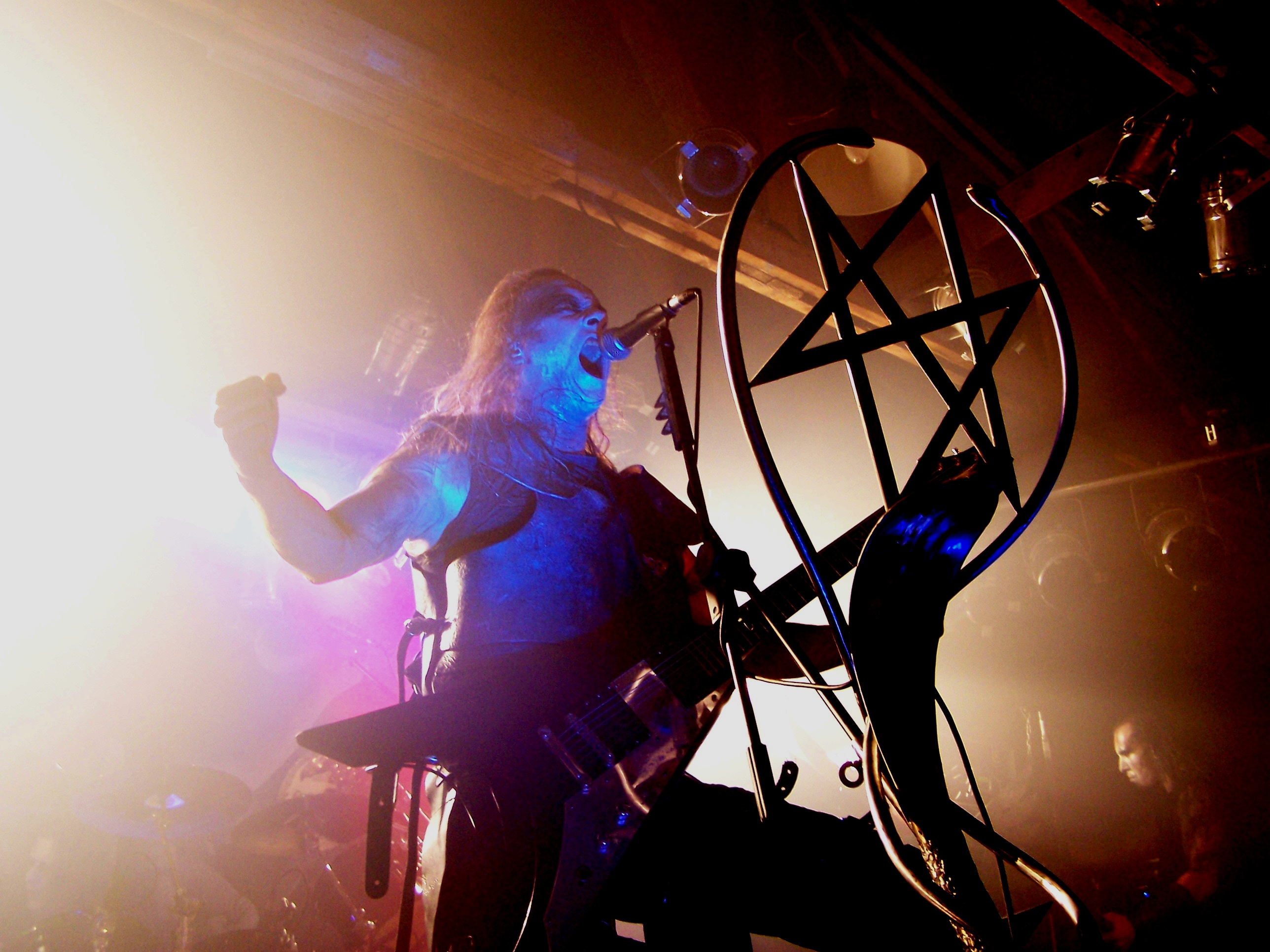 Adam Darski from Behemoth during Polish Apostasy Tour 2007 in Mega Club in Katowice.